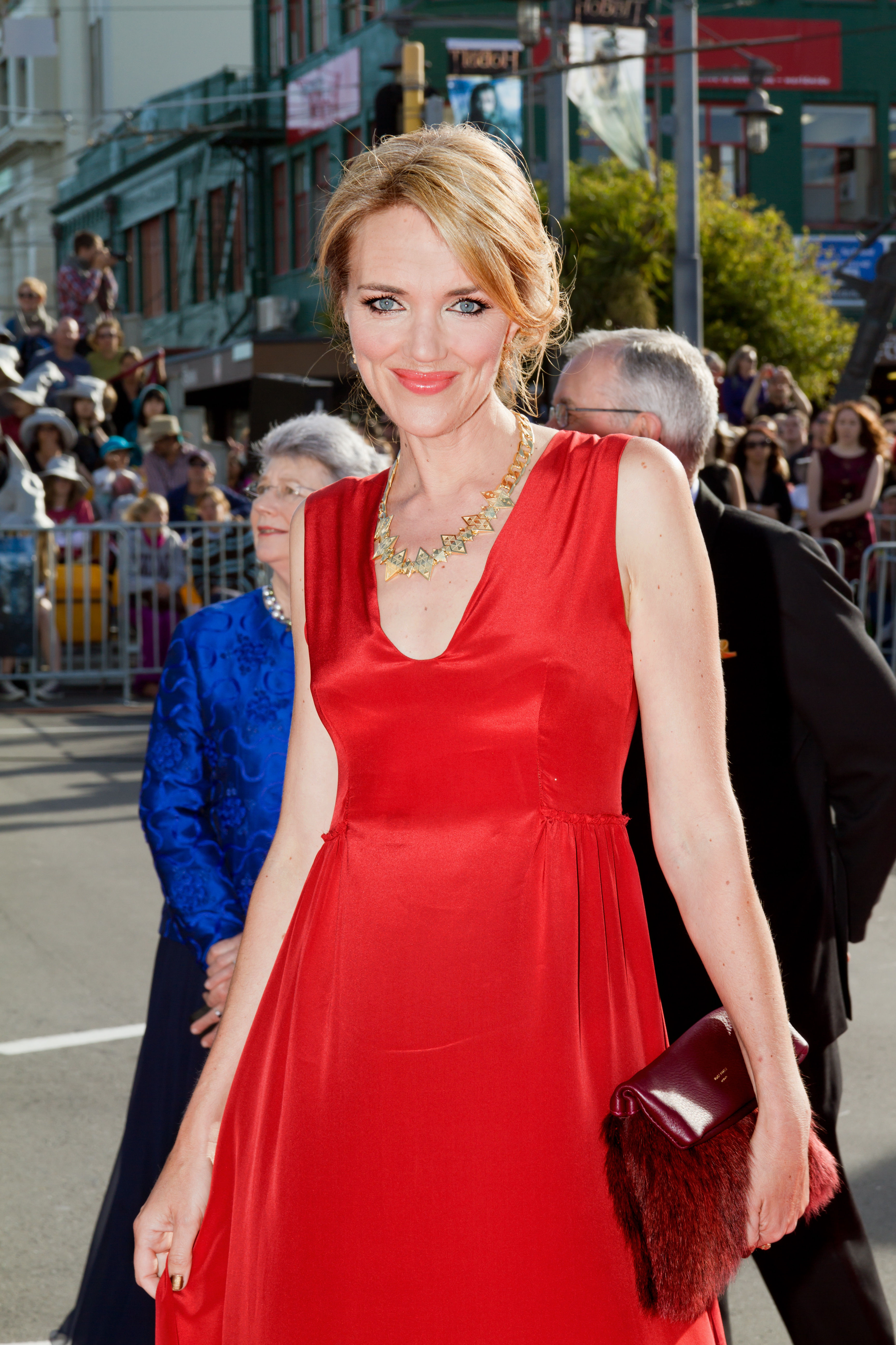 Bagust at the world premiere of The Hobbit - An Unexpected Journey - November 2012 Wellington, New Zealand. More photos available at